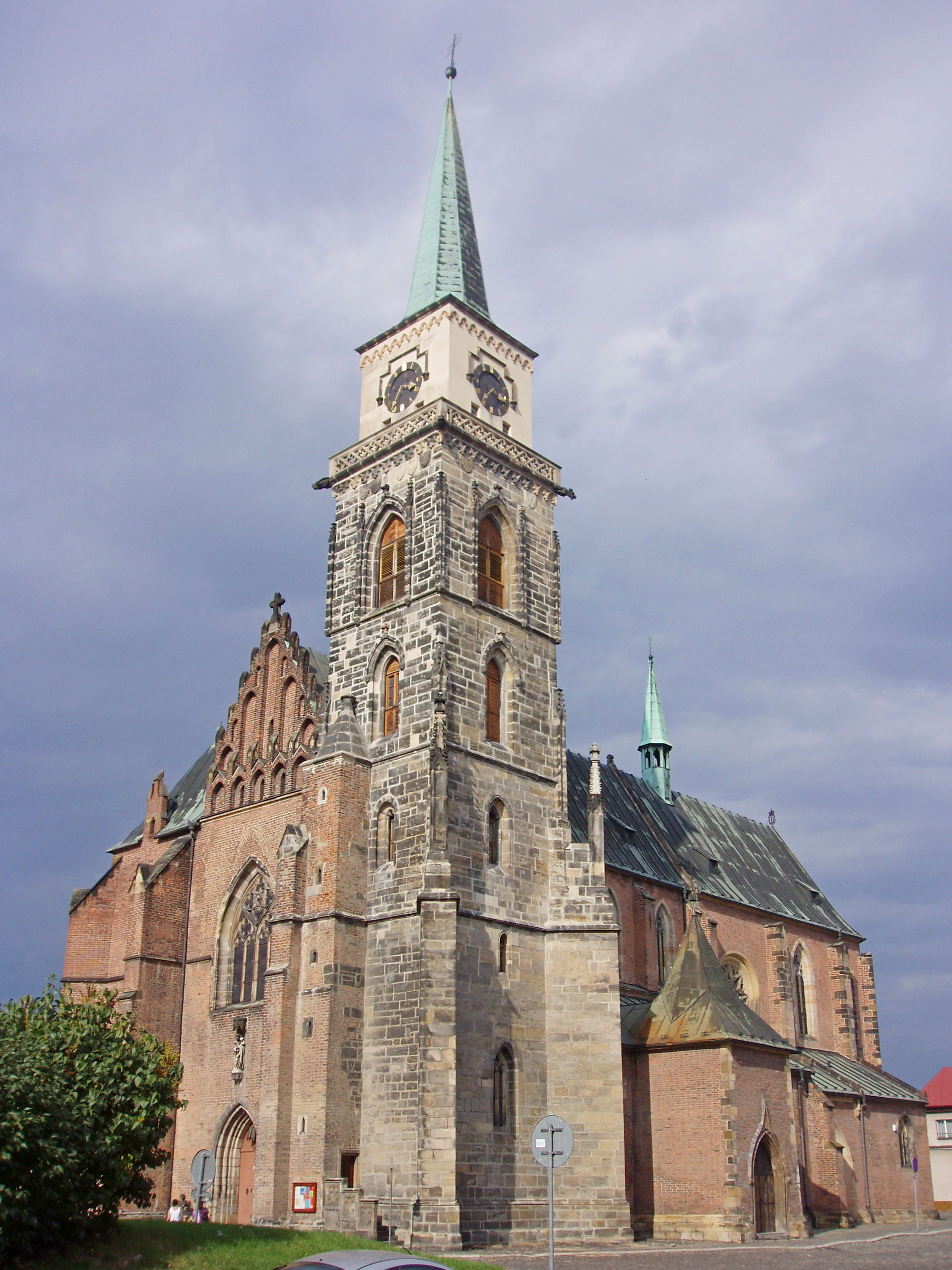 Kostel sv Jiljí v Nymburce